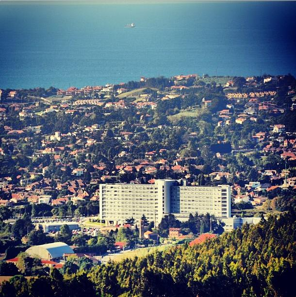 Vista del hospital de Cabueñes con la zona de Somió y el mar Cantábrico de fondo, Gijón